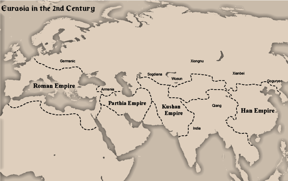 Map showing the four empires of Eurasia in 2nd Century AD